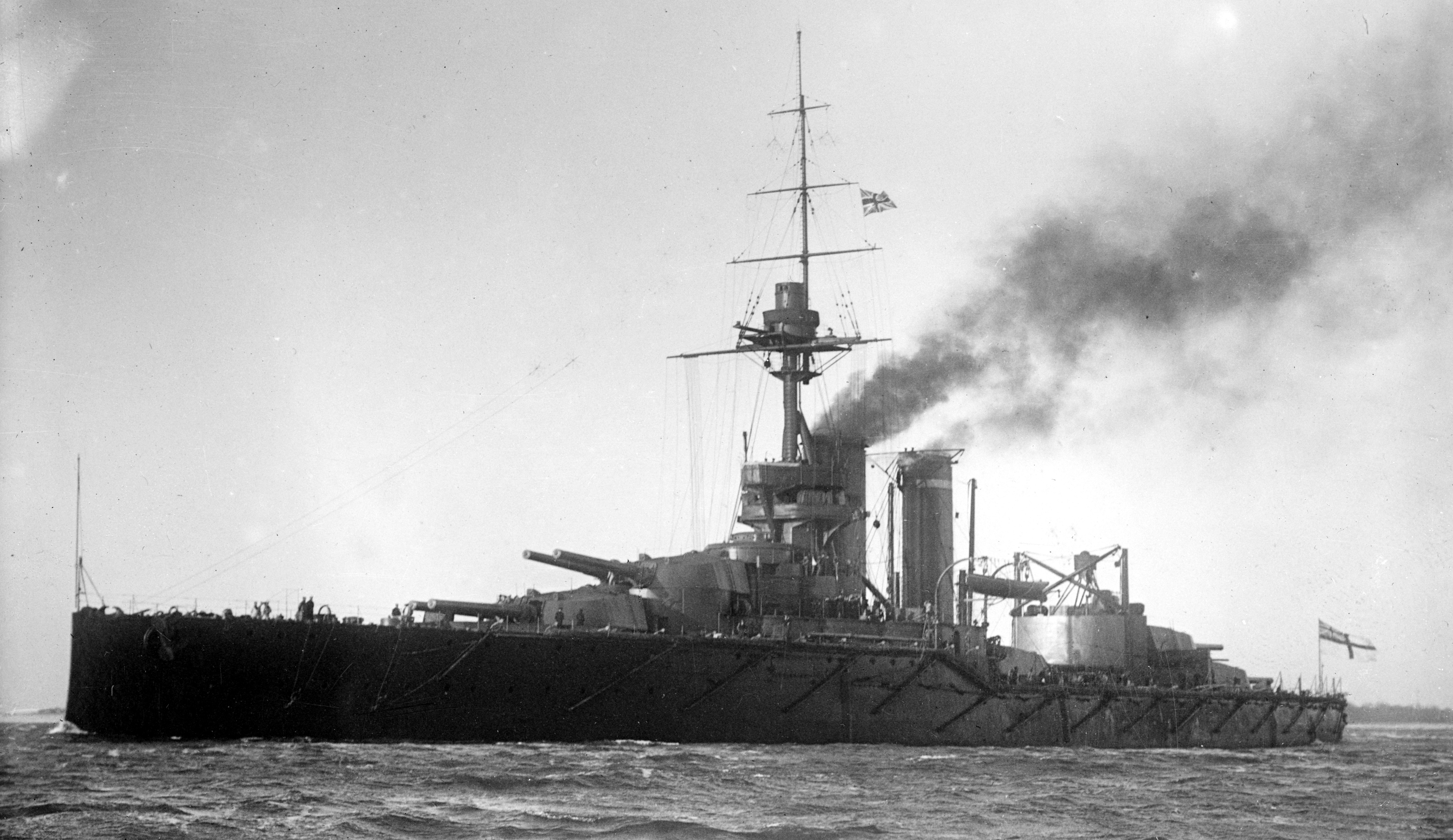 British battleship HMS Audacious. Date not recorded, but must be some time between 1913 and 1914. Original image cropped and adjusted.